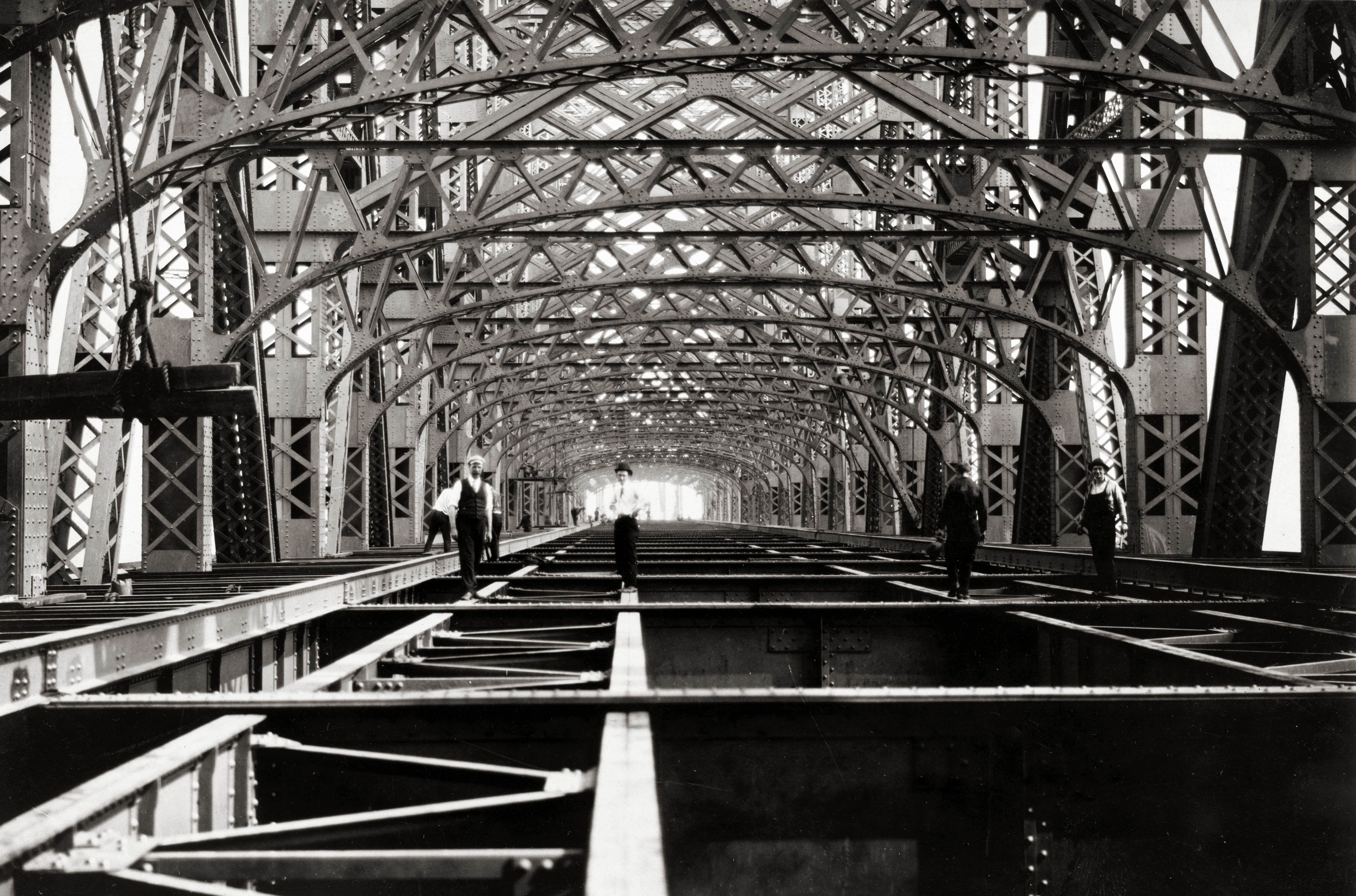 Men working on the Queensboro Bridge (then known as Blackwell's Island Bridge) in New York City.